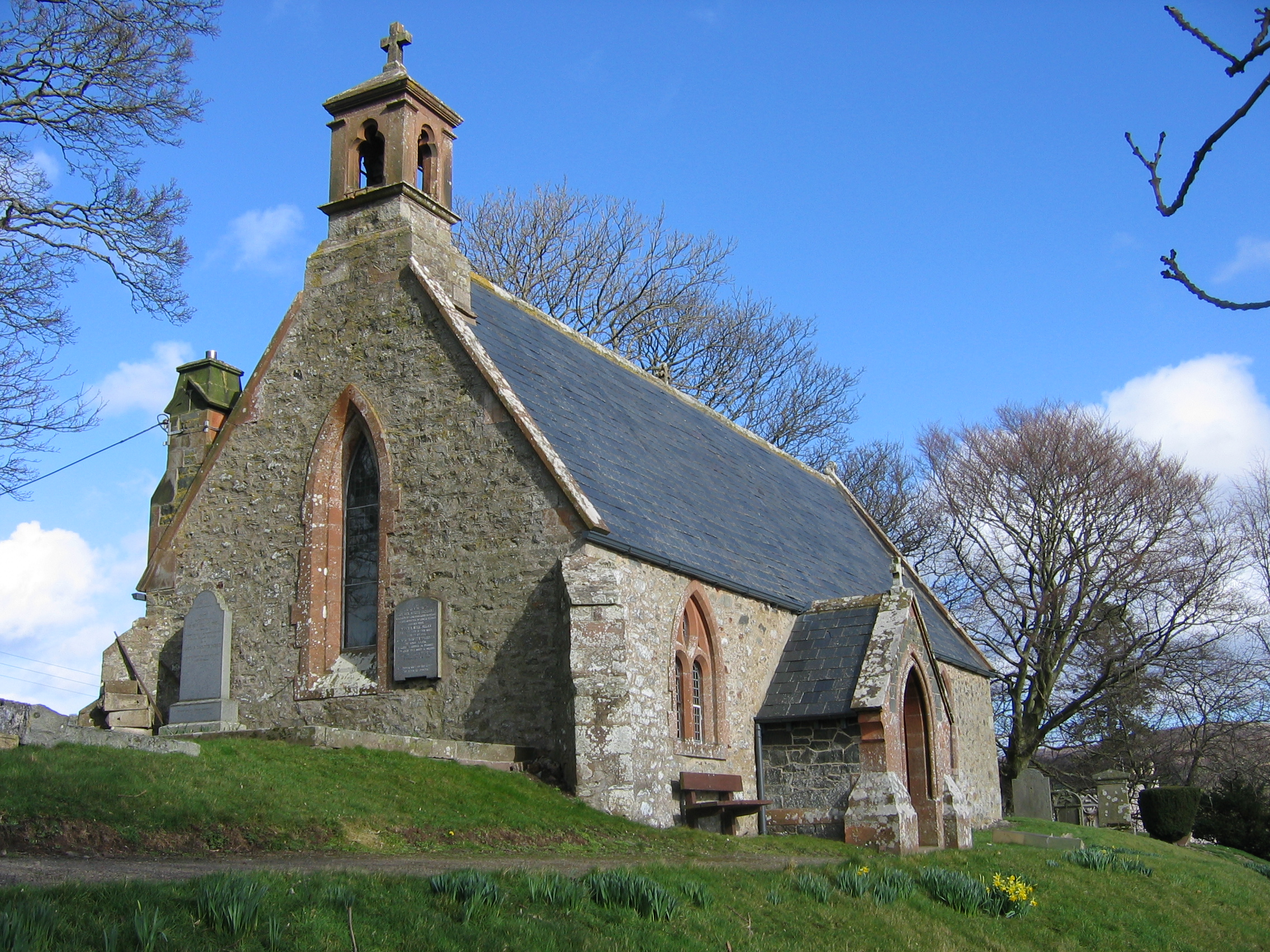 Lyne Kirk, near Peebles, in the Scottish Borders.